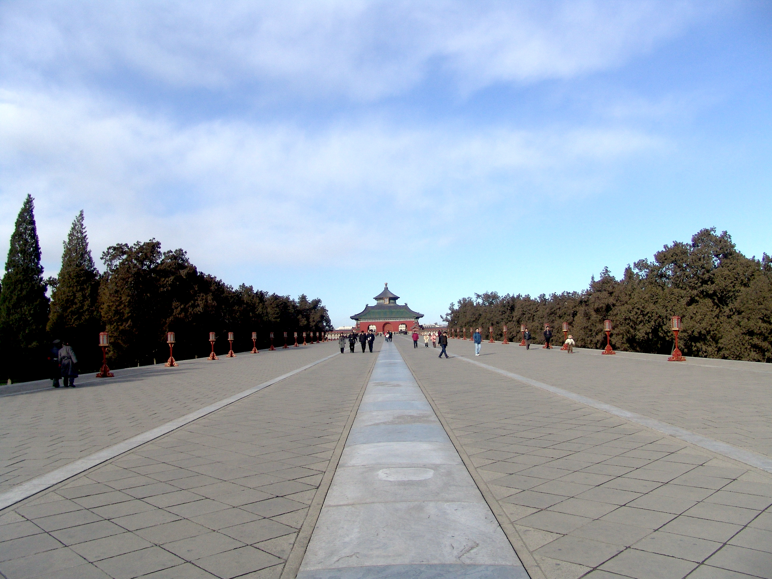 Temple of Heaven 4